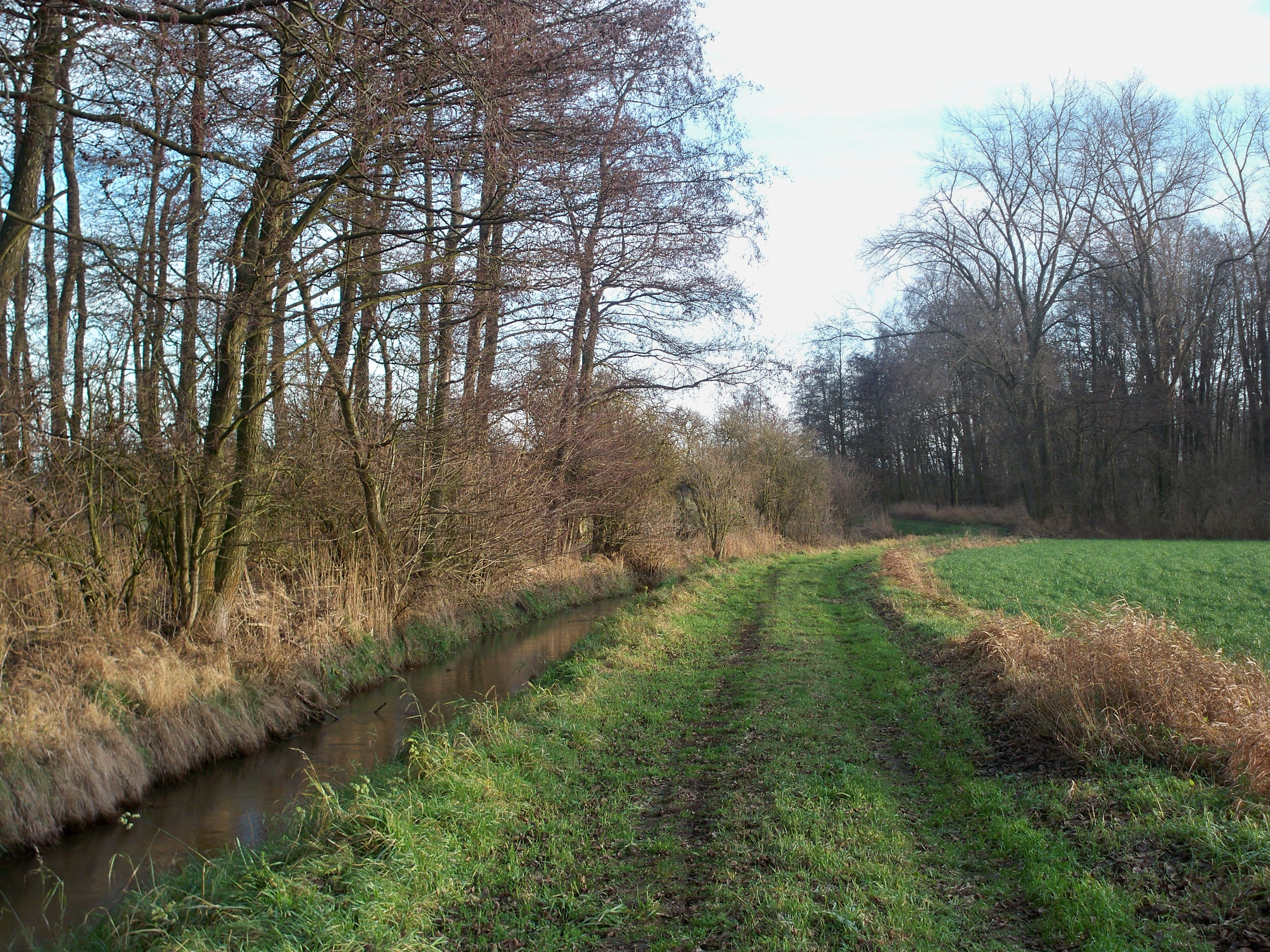 Zasenbeck (Lower Saxony), nature reserve Mittlere Ohreaue (right) with Ohre river and nature reserve Ohreaue (left)